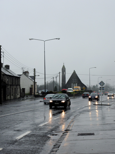 Borris-in-Ossory, Co. Laois